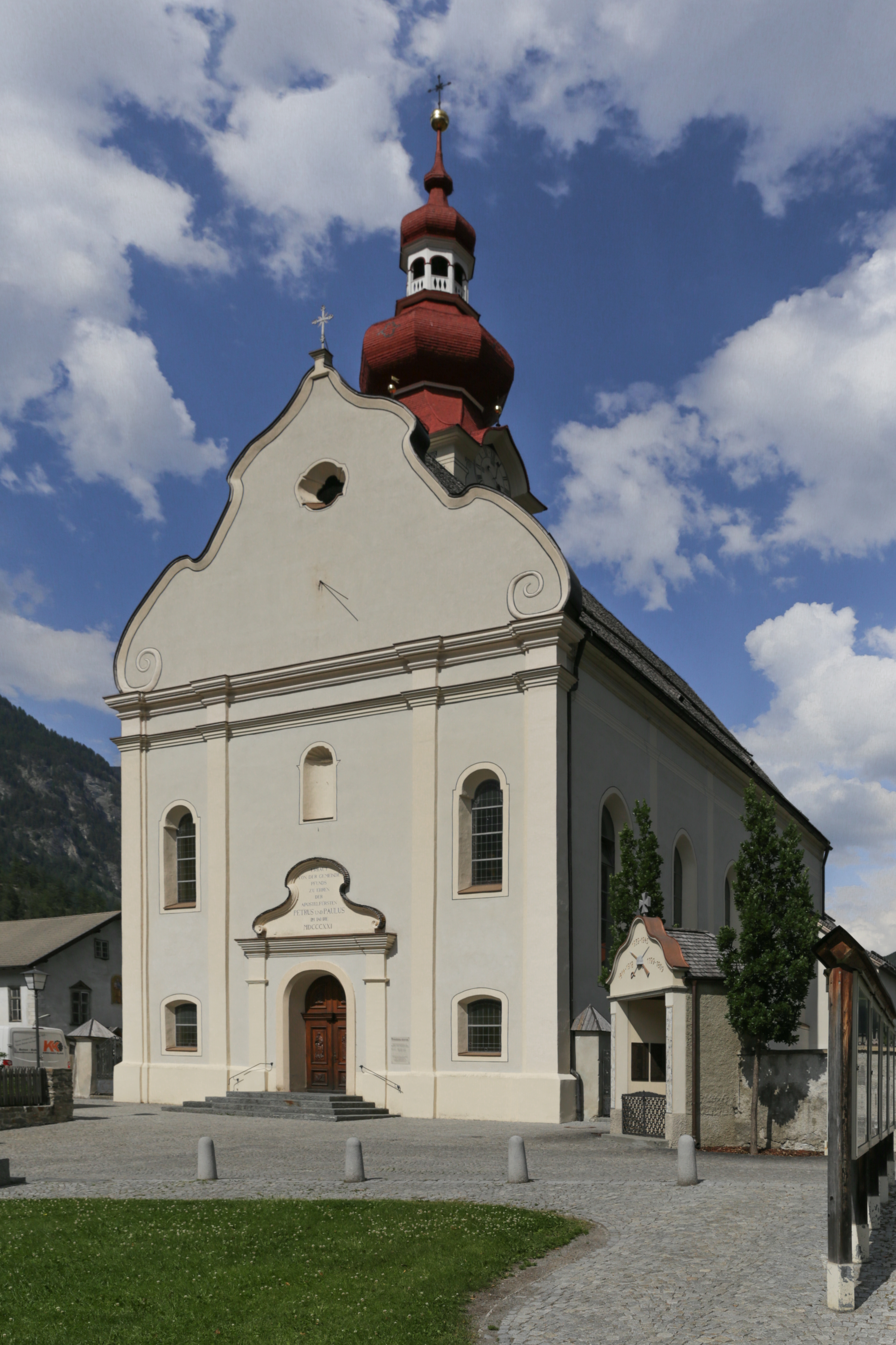 Peter-und-Paul-Kirche (Pfunds), North Tyrol.